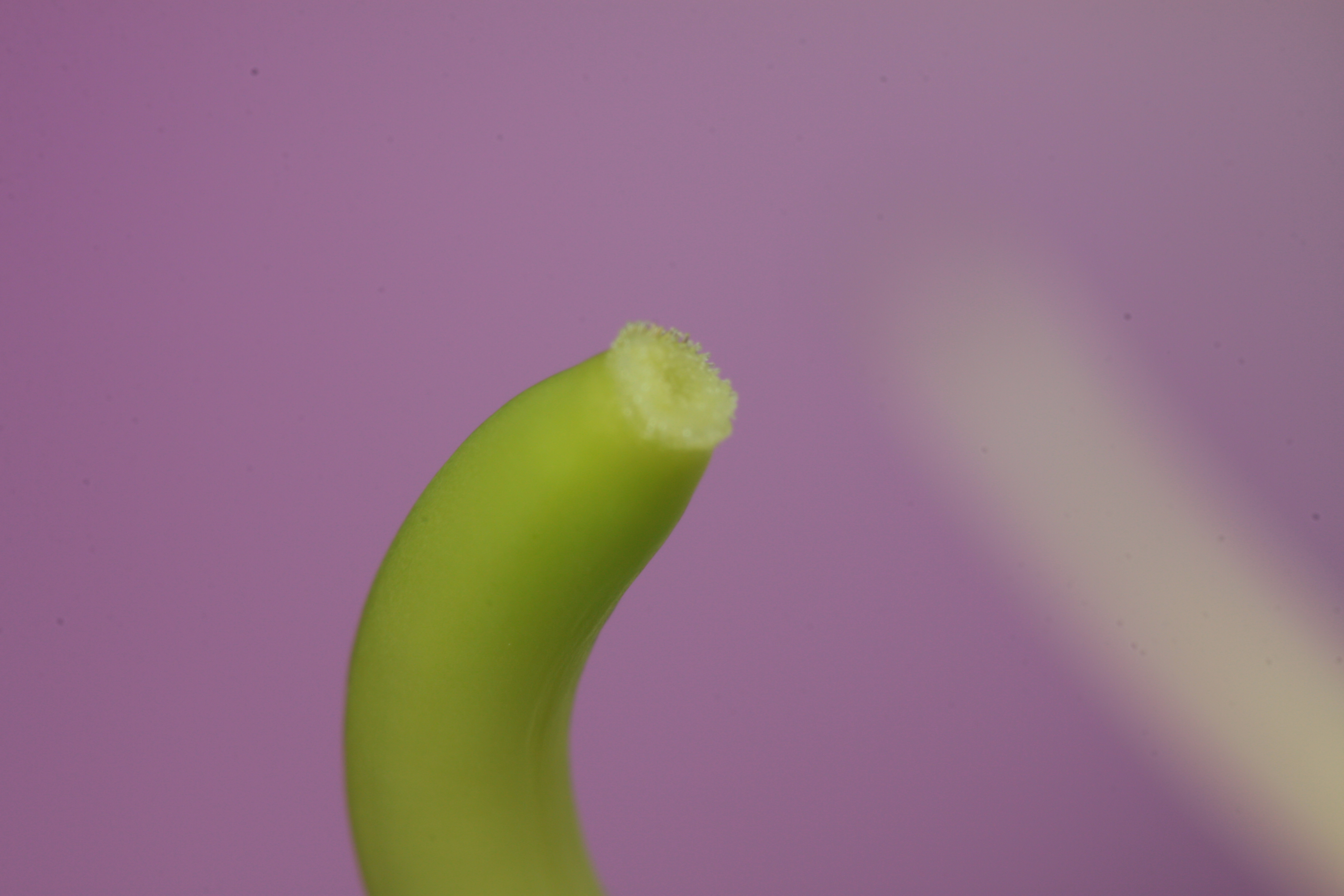 Tibouchina pulchra flower stigma. Photo taken in Ubatuba, Brazil